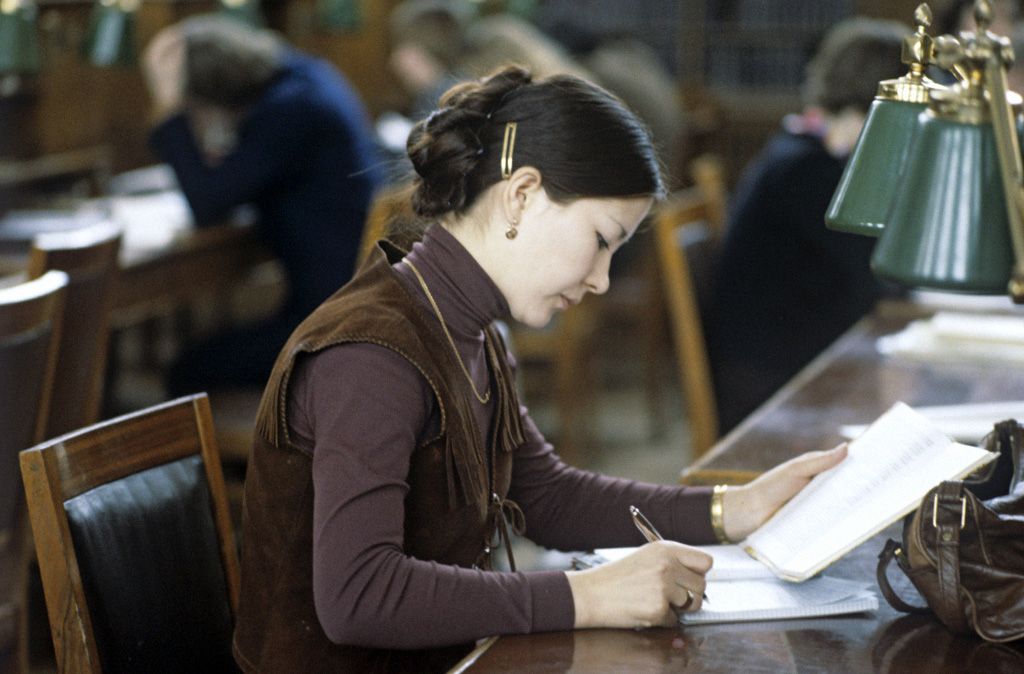 “Reading hall at V. I. Lenin State Library of the USSR”. A reading hall at the V. I. Lenin State Library of the USSR (currently Russian State Library).